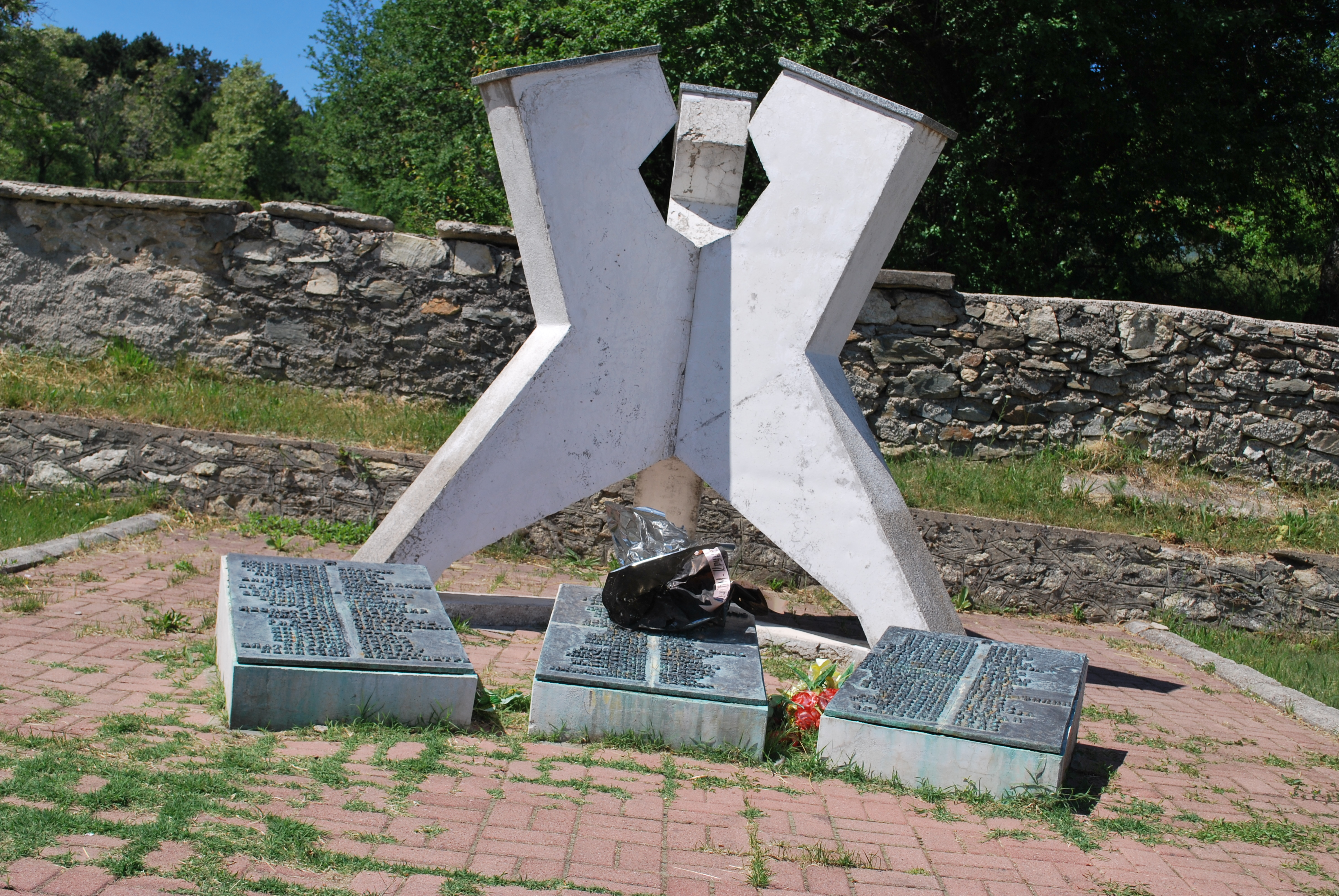 Alley of the Greats in Kruševo, Macedonia